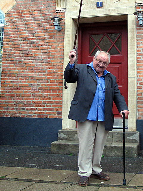 A picture of the former Danish primeminister Anker Jørgensen leaving the place of his residence for 49 years, the Copenhagen labour district Sydhavnen (South Harbour).